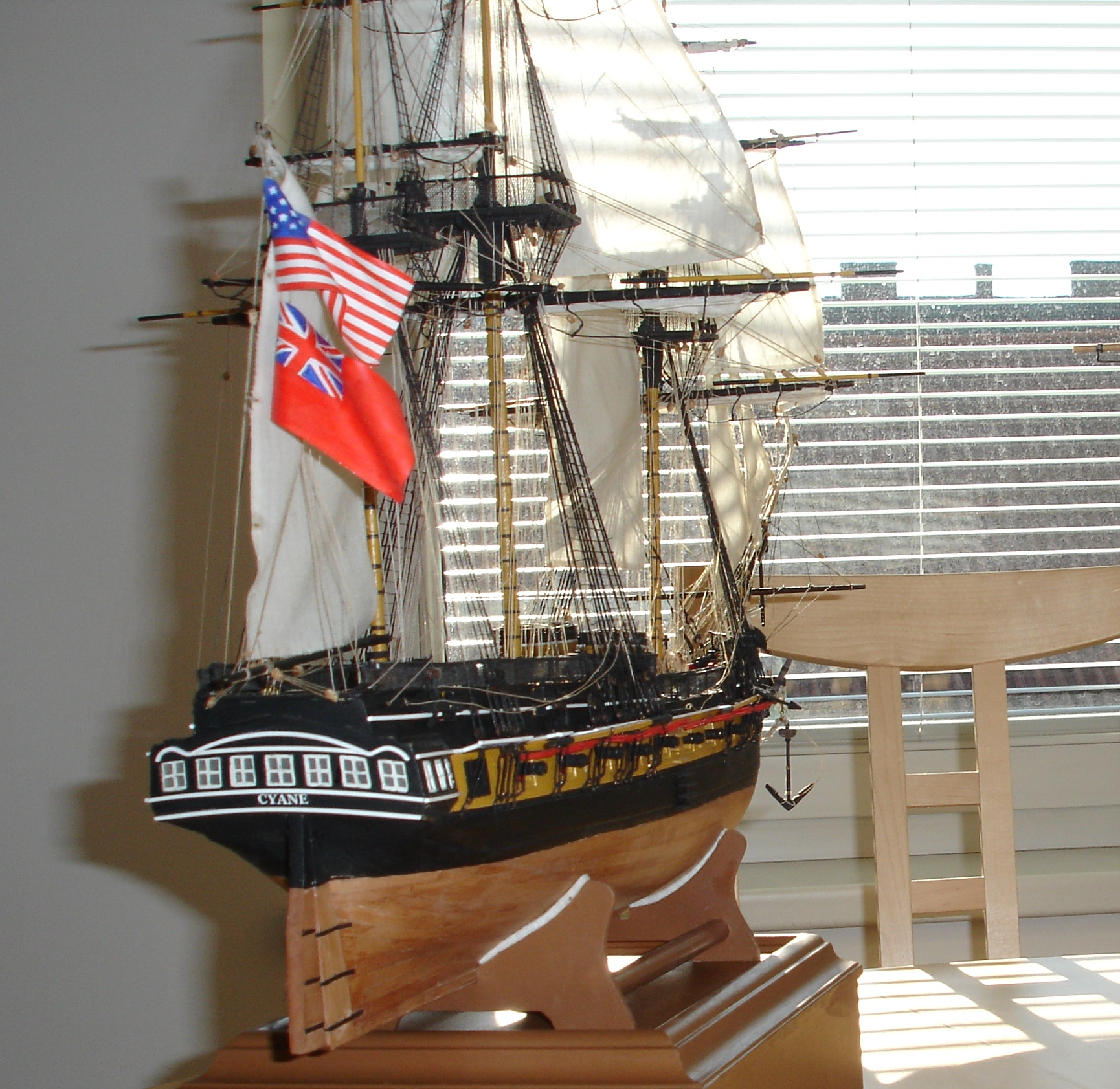 Wooden model of frigate HMS Cyane. Scale 1:98